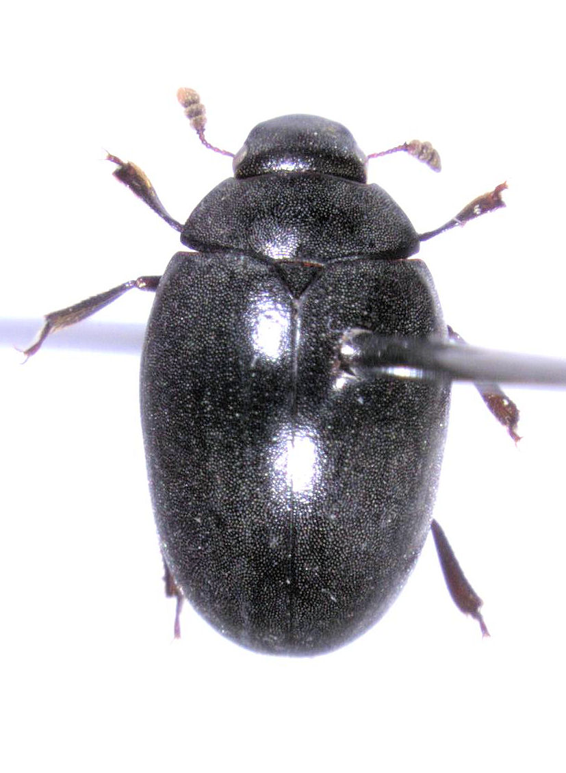 adult Nosodendron zealandicum